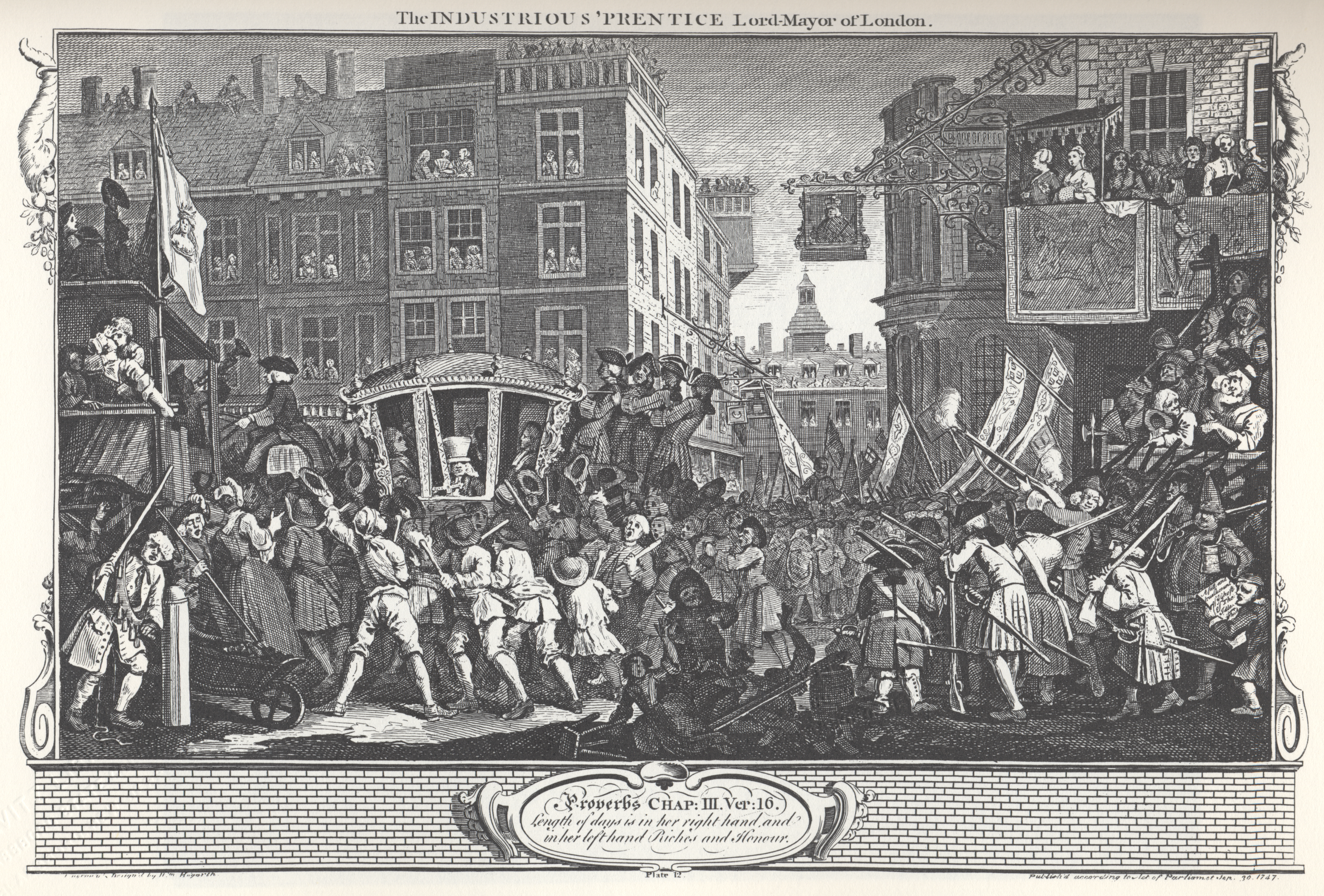 William Hogarth - Industry and Idleness, Plate 12; The Industrious 'Prentice Lord-Mayor of London